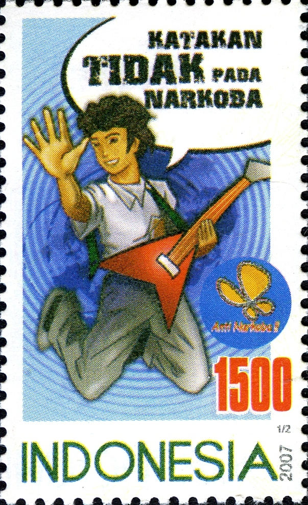 Stamps of Indonesia